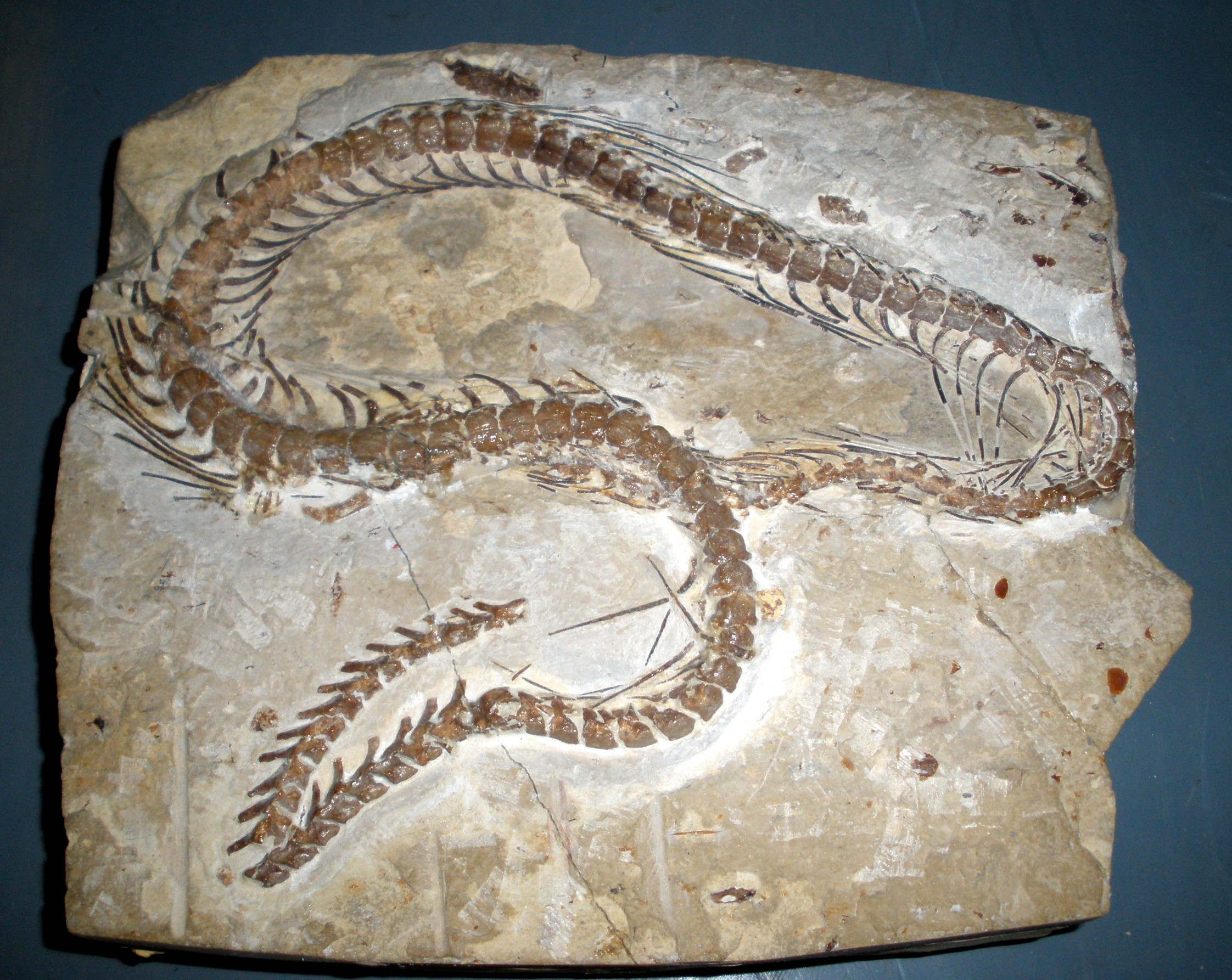 Fossil of Eupodophis descouensi, an extinct snake Took the photo at Museo di Storia Naturale, Milano